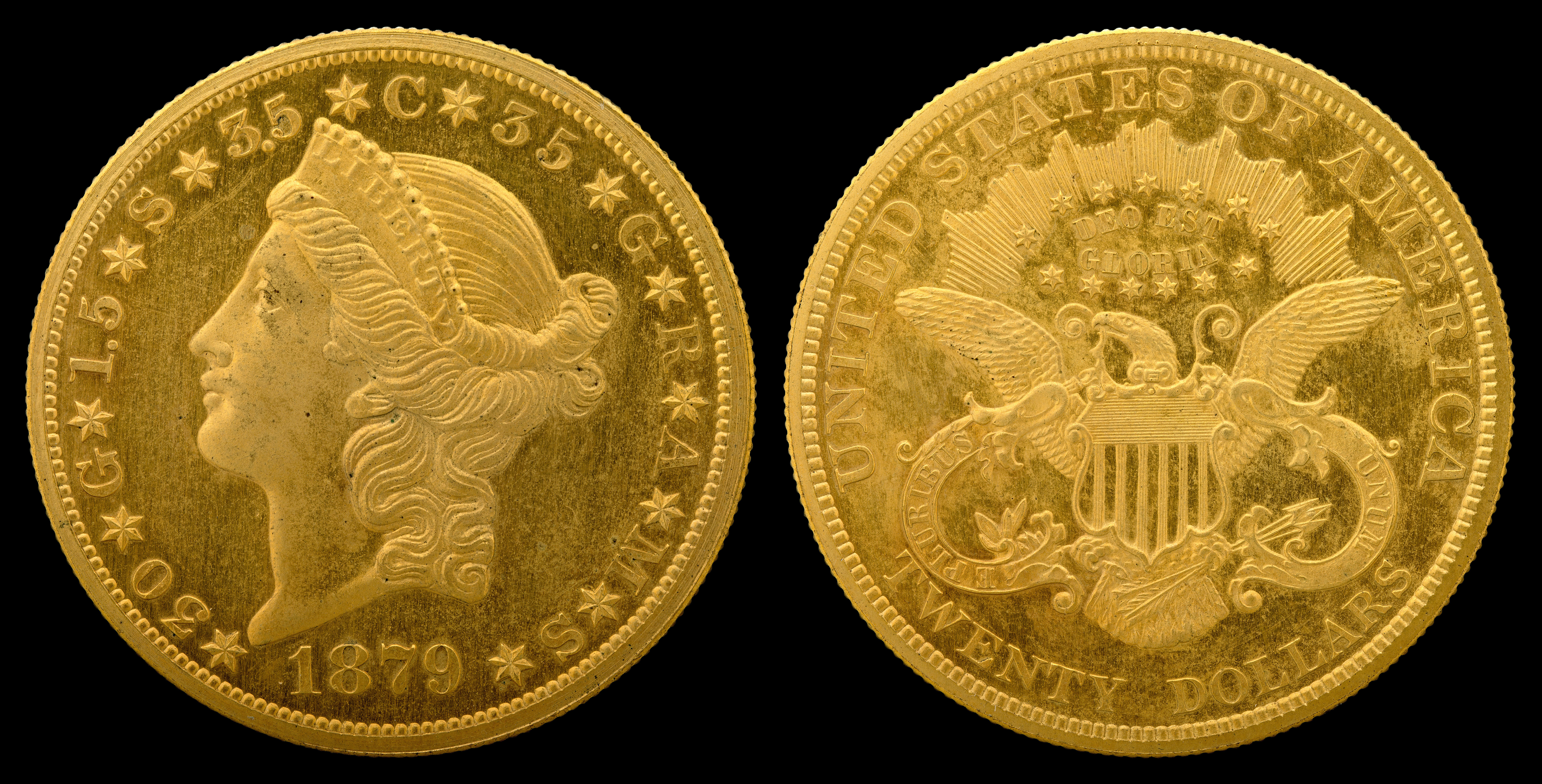 1879-G$20-Quintuple Stella Pattern JN2015-6864-65